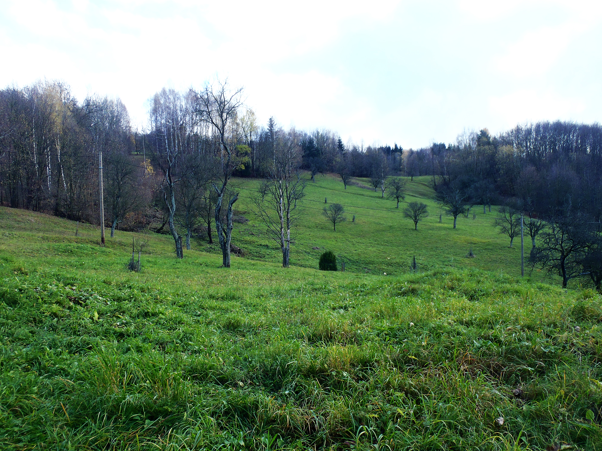 Nature reserve Hutě in Uherské Hradiště District, Czech Republic.